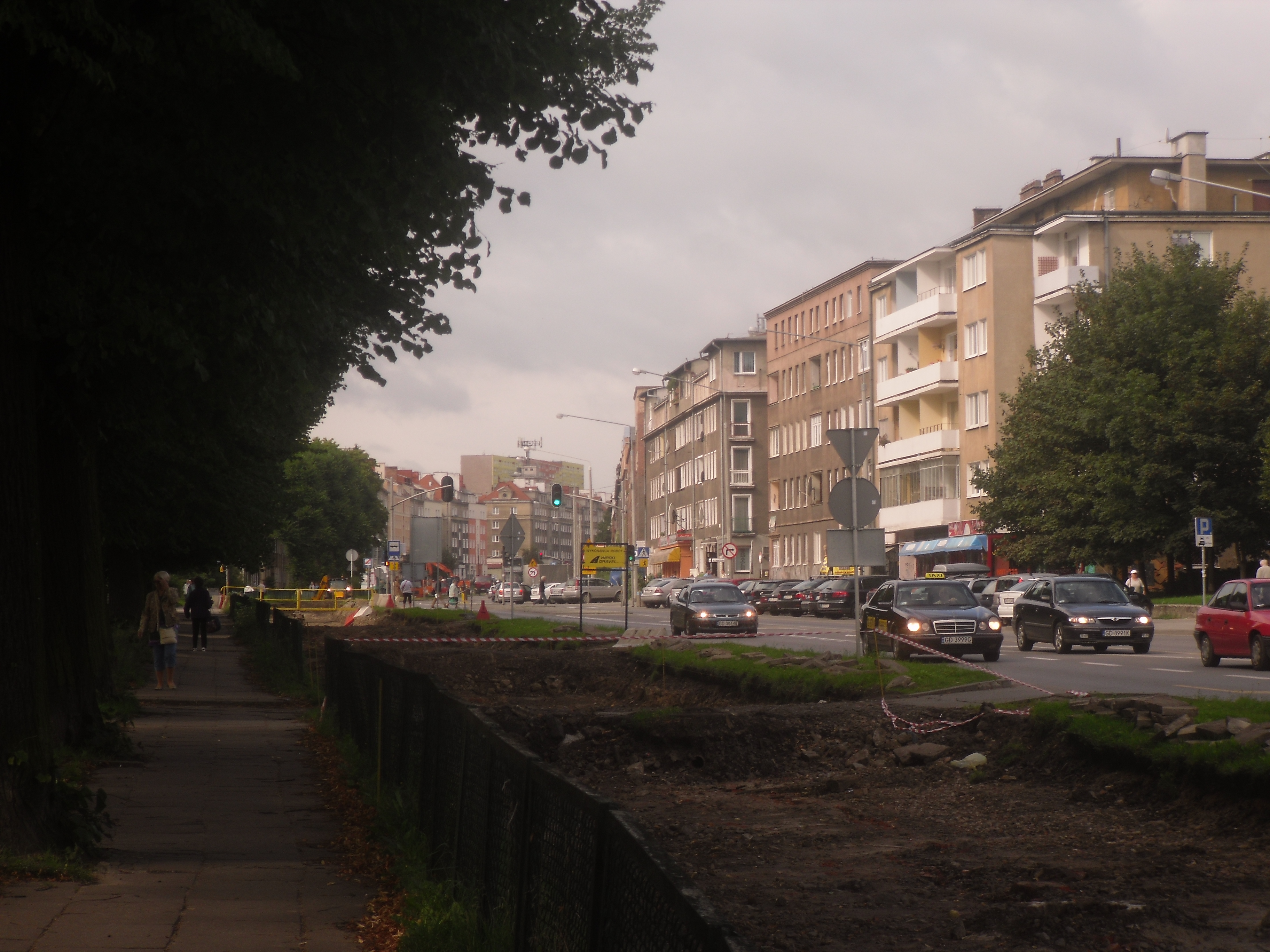 Kartuska Str. in Gdańsk.